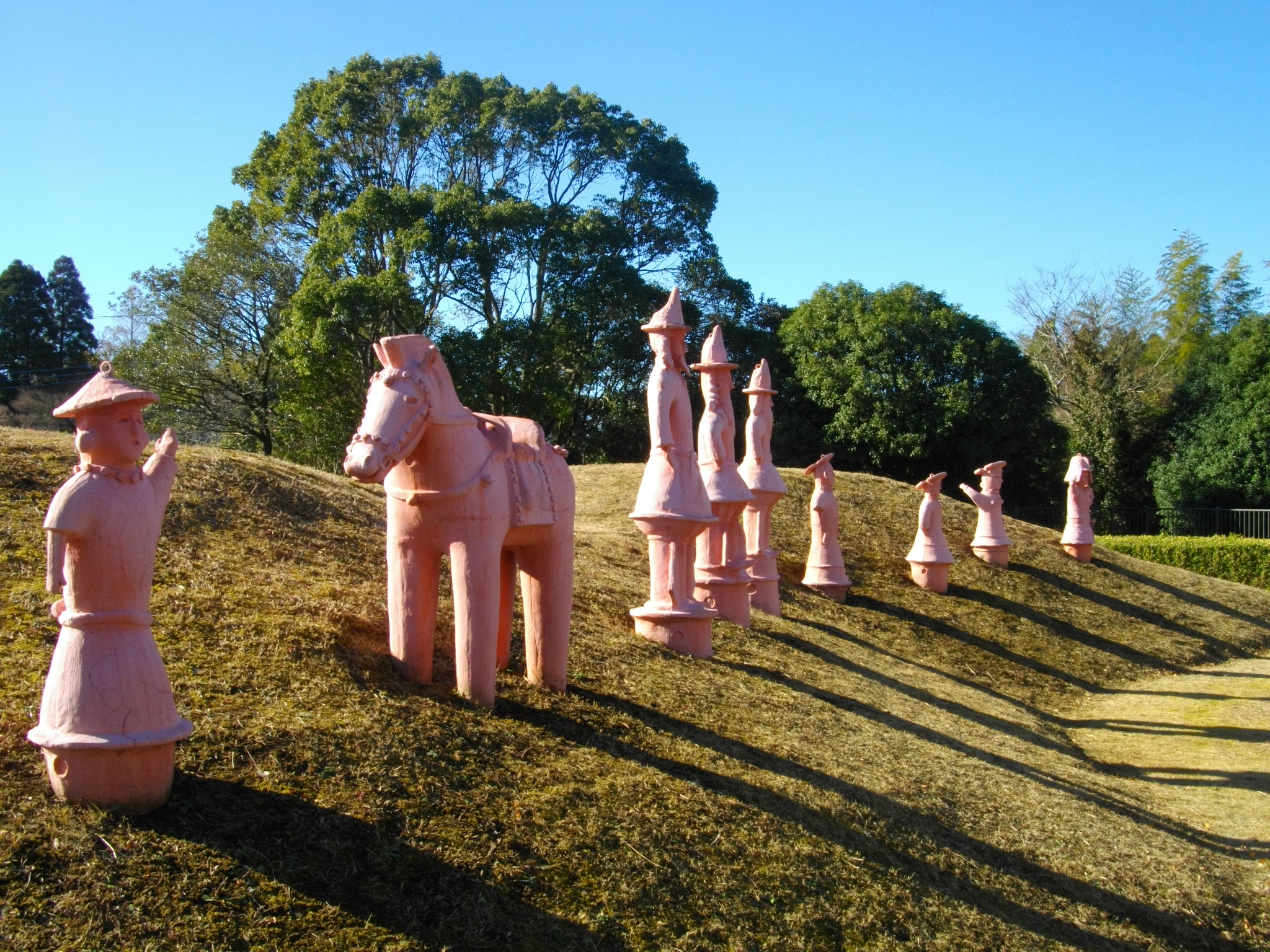 Shibayama Park